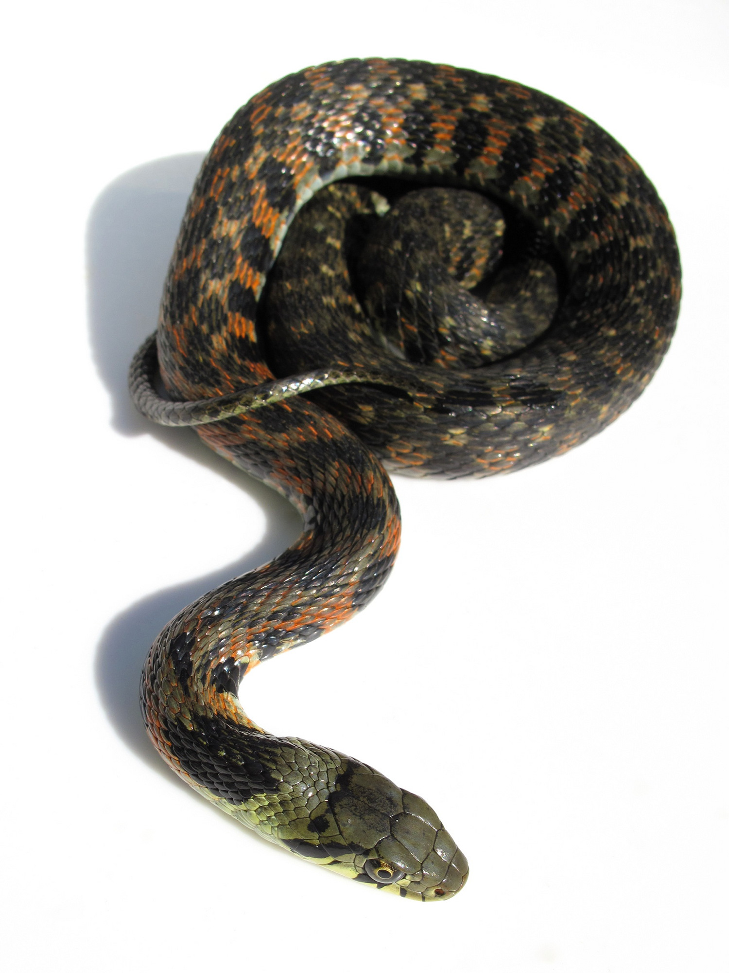 Tiger keelback, Rhabdophis tigrinus